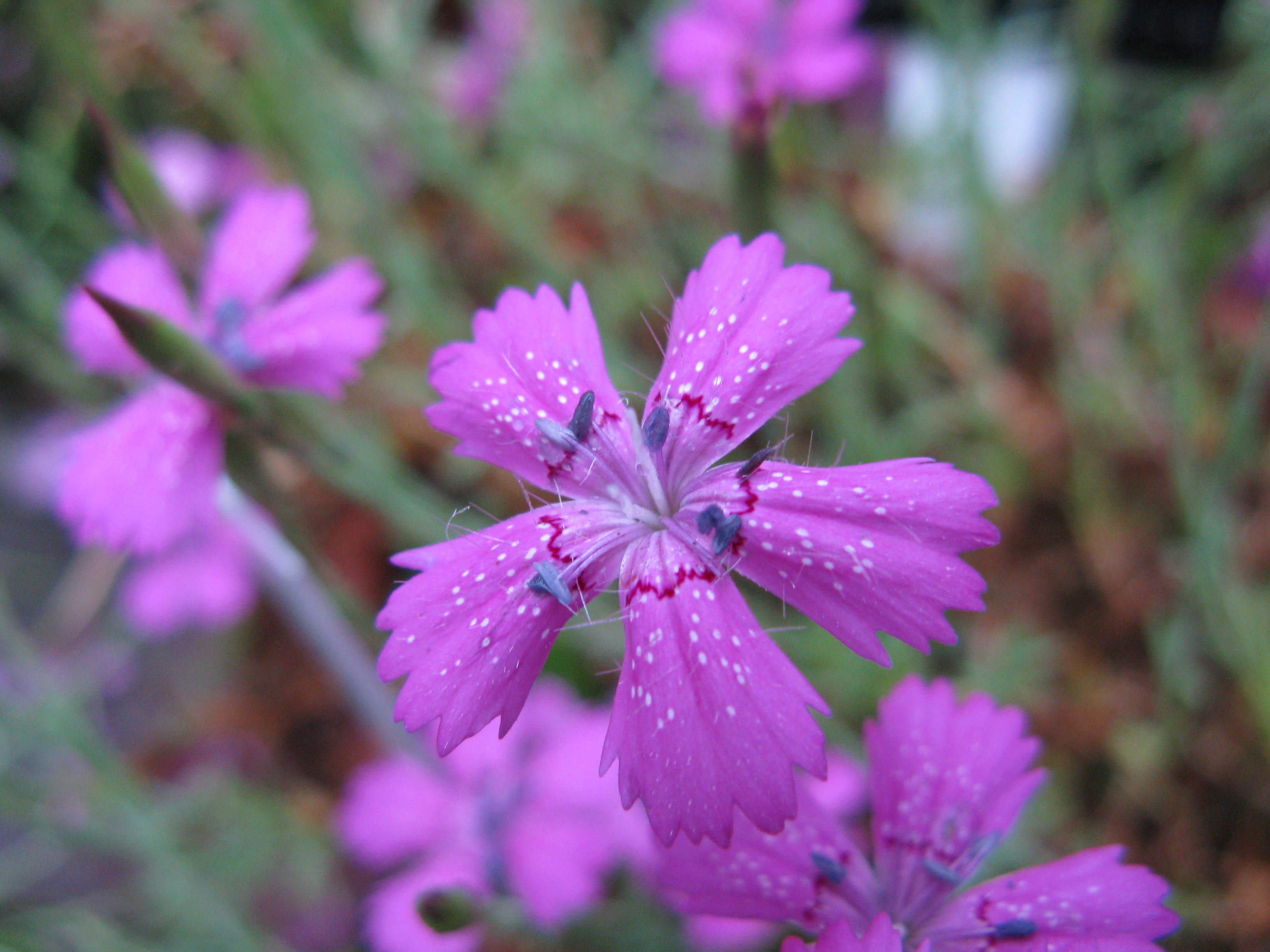 Scientific name Dianthus glacialis Place:Osaka Prefectural Flower Garden,Osaka,Japan